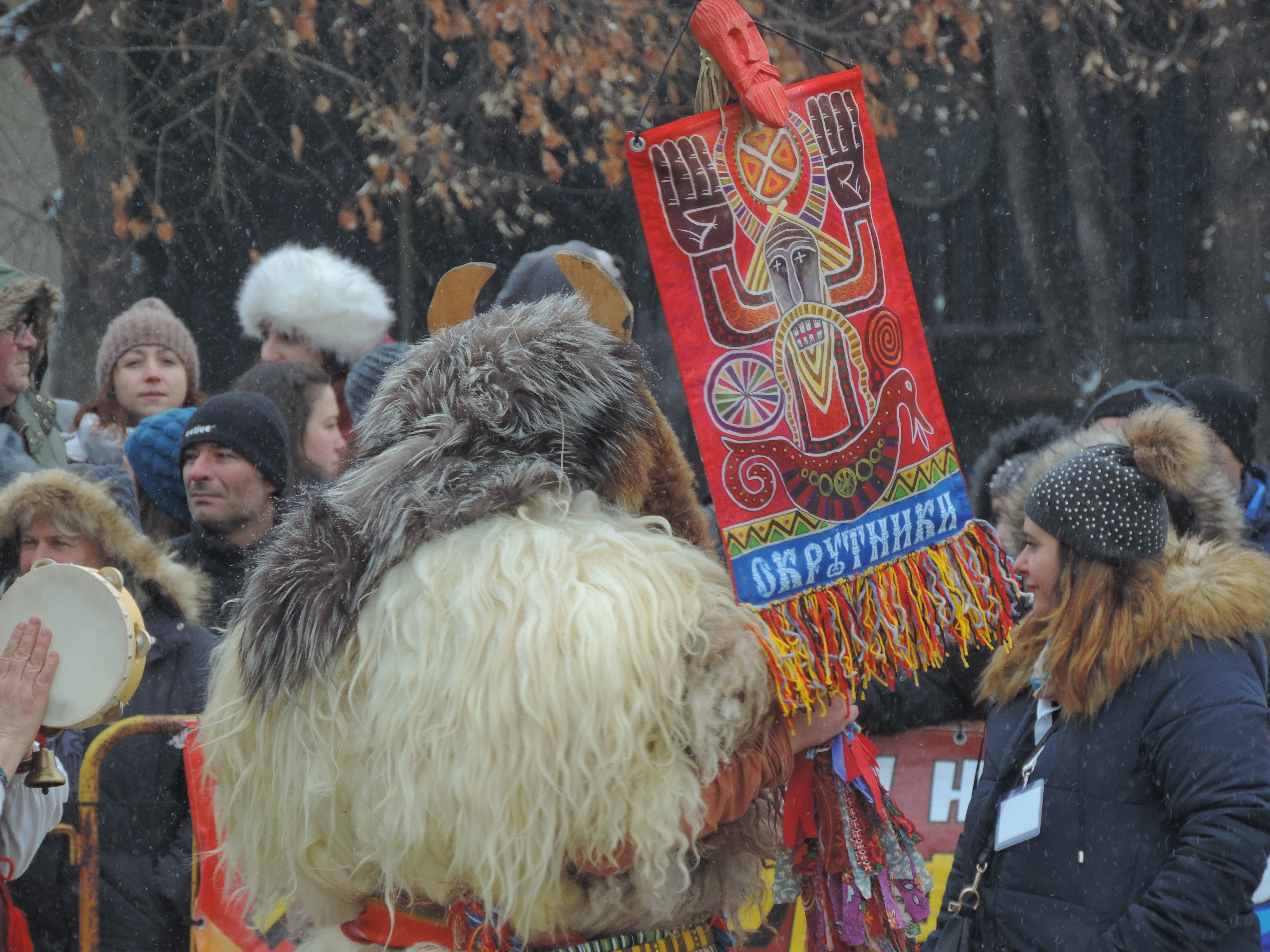 XXVIII International festival of masquerade games "Surva", Pernik 2019